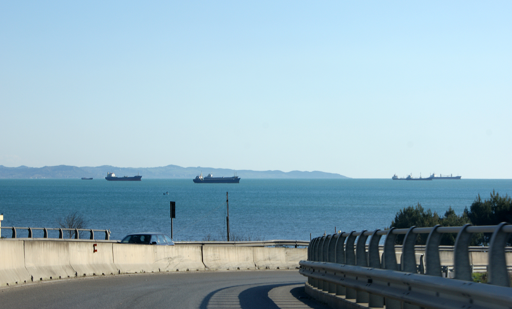 End of Highway from Tirana to Durrës in Durrës, Albania